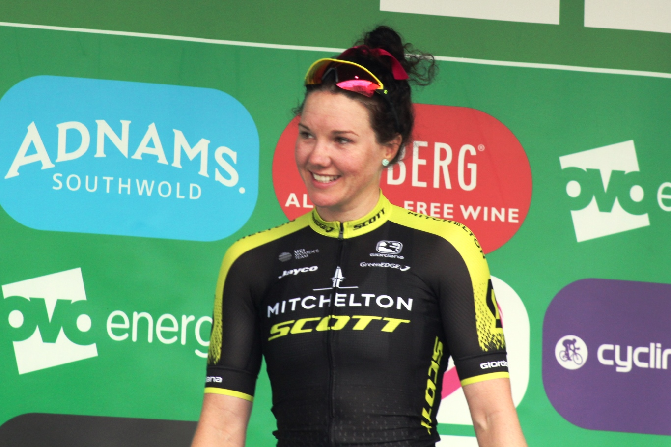 Sarah Roy, winner of stage 3 of the 2018 Women's Tour which finished in Royal Lemaington Spa.